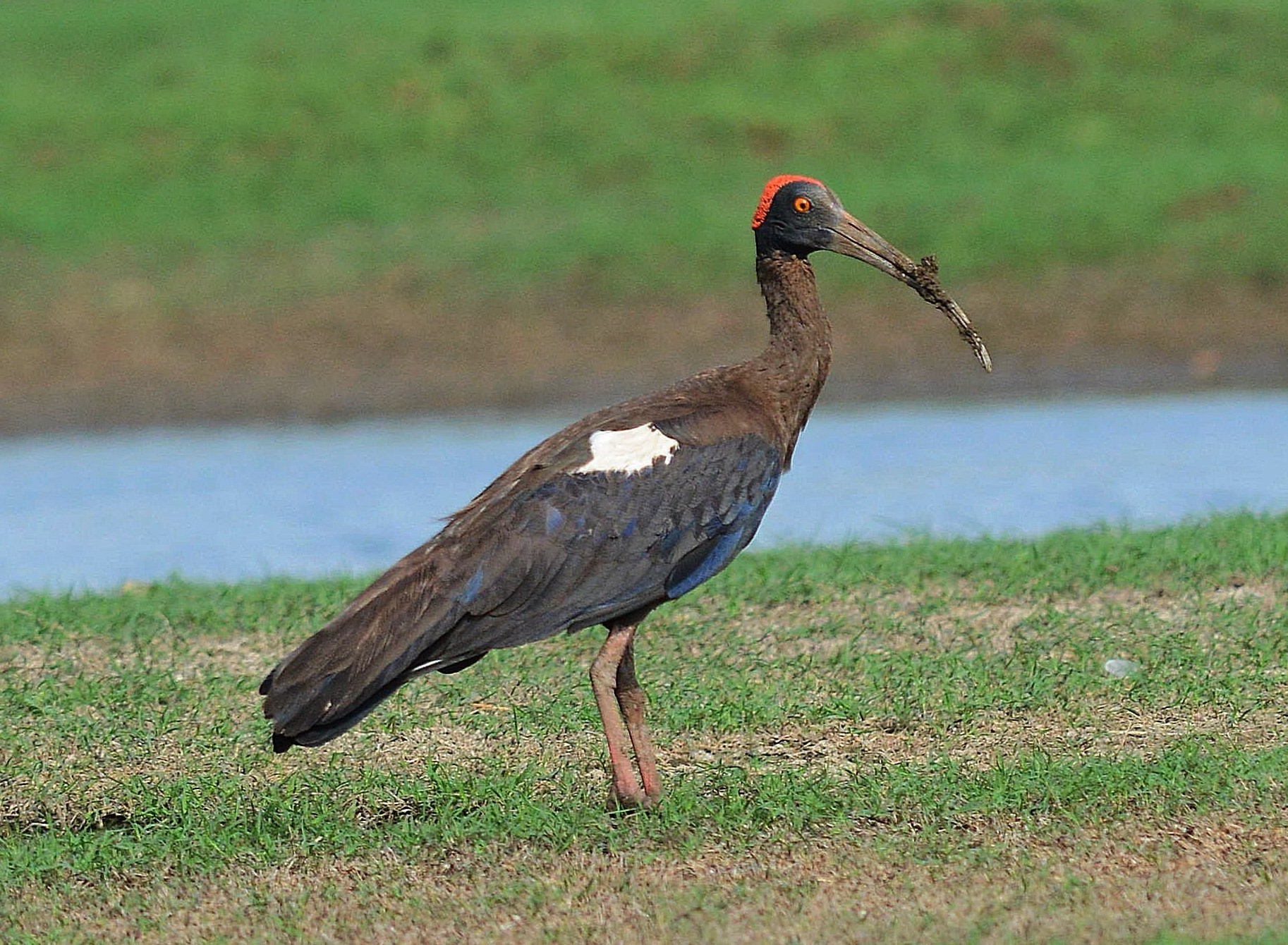 Black Ibis or Red-naped Ibis Pseudibis papillosa by Dr. Raju Kasambe